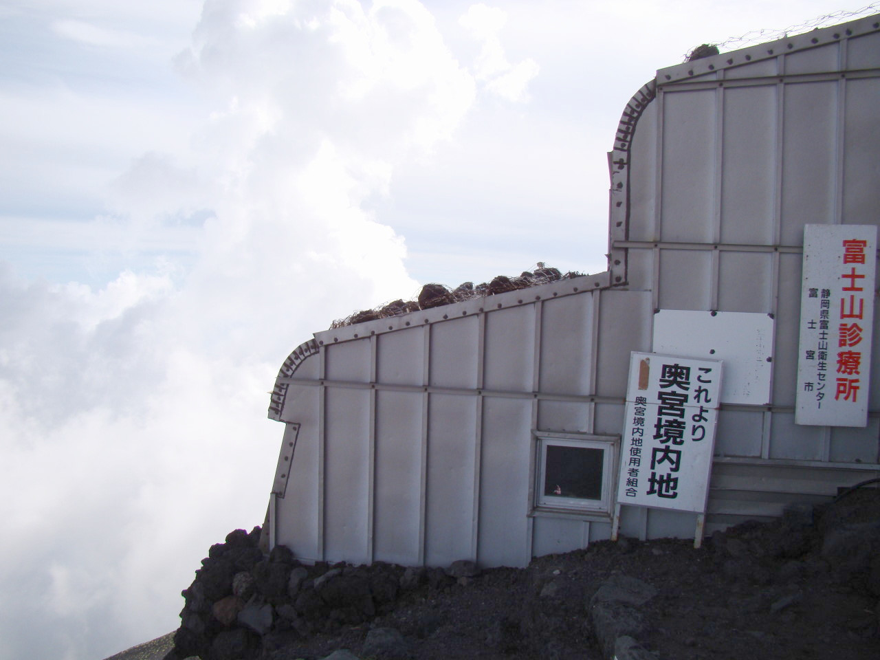 Fujisan clinic